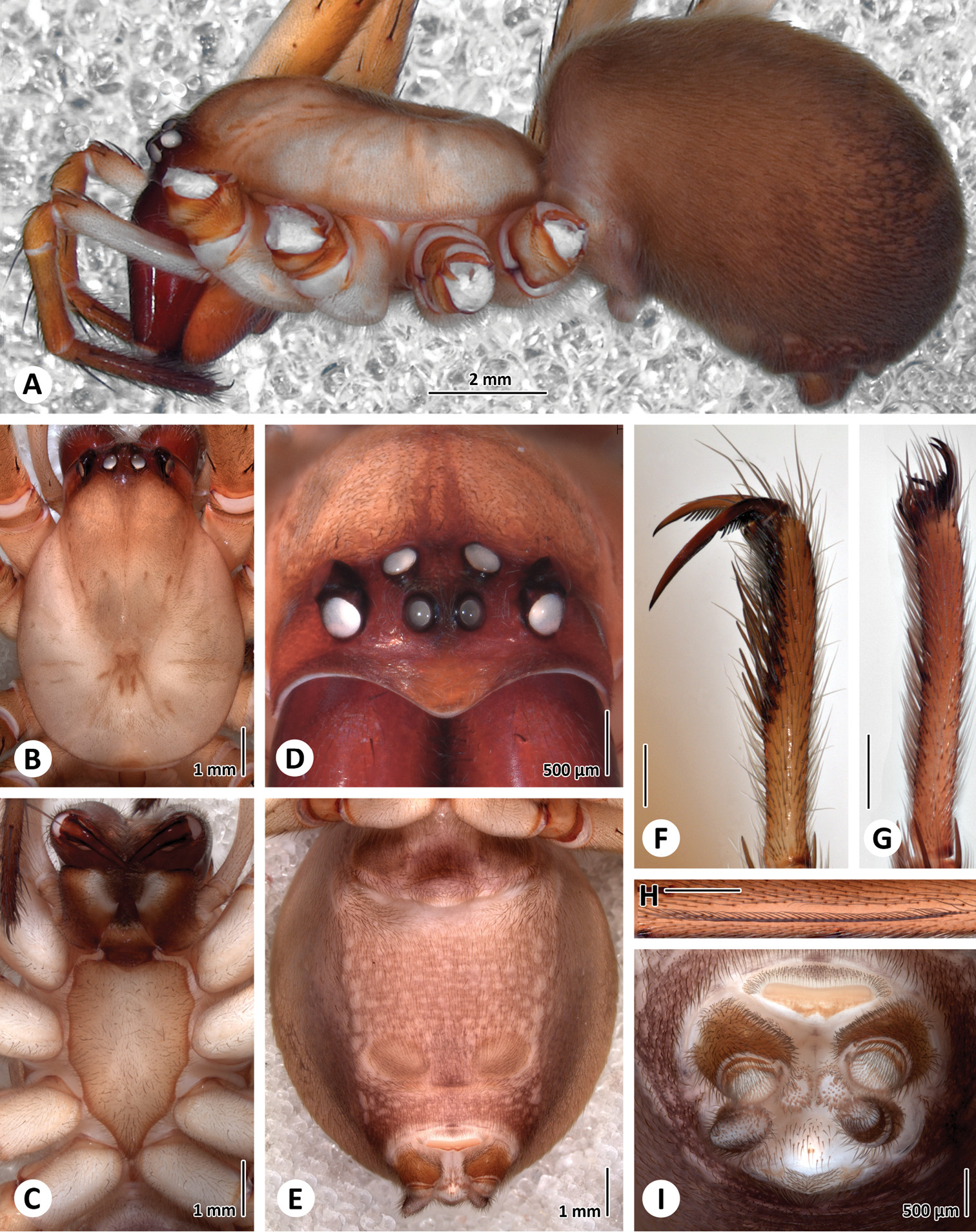 Somatic characters of the female of P. otwayensis. A Lateral view of prosoma and opisthosoma (ZIMG II/28128) B Dorsal view of prosoma (MV) C Ventral view of Prosoma (MV) D Frontal view of ocular area (ZIMG II/28128) E Ventral view of opisthosoma F Tarsus of leg I G Tarsus of leg IV h Calamistrum. I Ventral view of spinnerets. Scale bar in F–H is 500 µm.